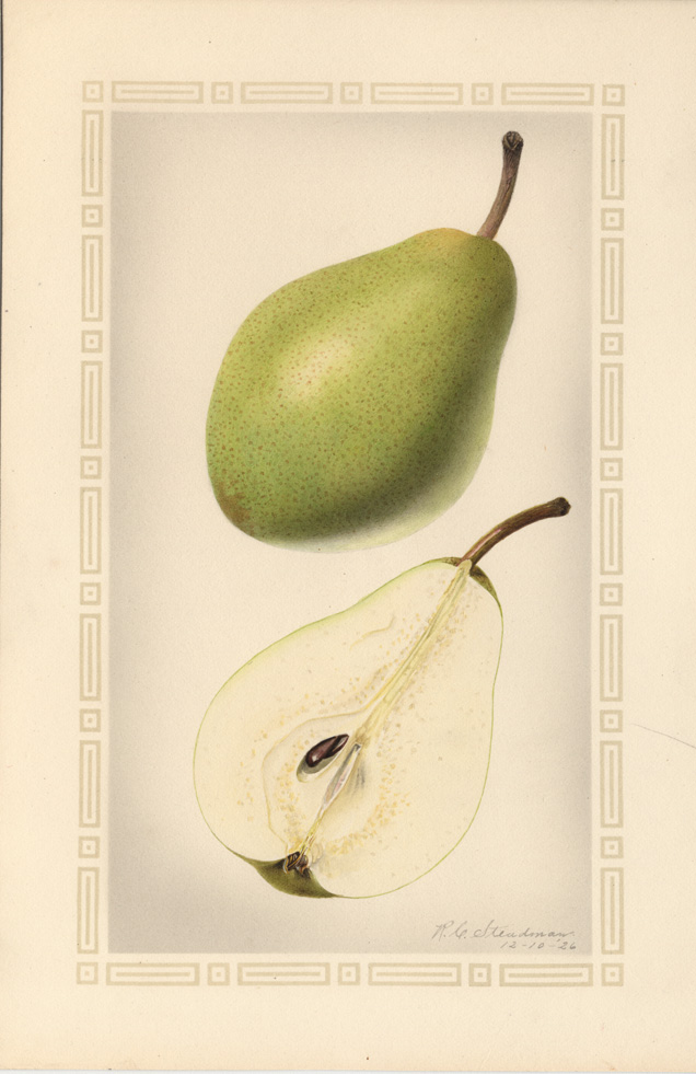 Watercolor of fruit 'Hardy', 'Gellert', 'Gellerts Butterbirne'. Fruit came from „Will B. Weston, Alvise, California. Picked about August 8, 1926.“